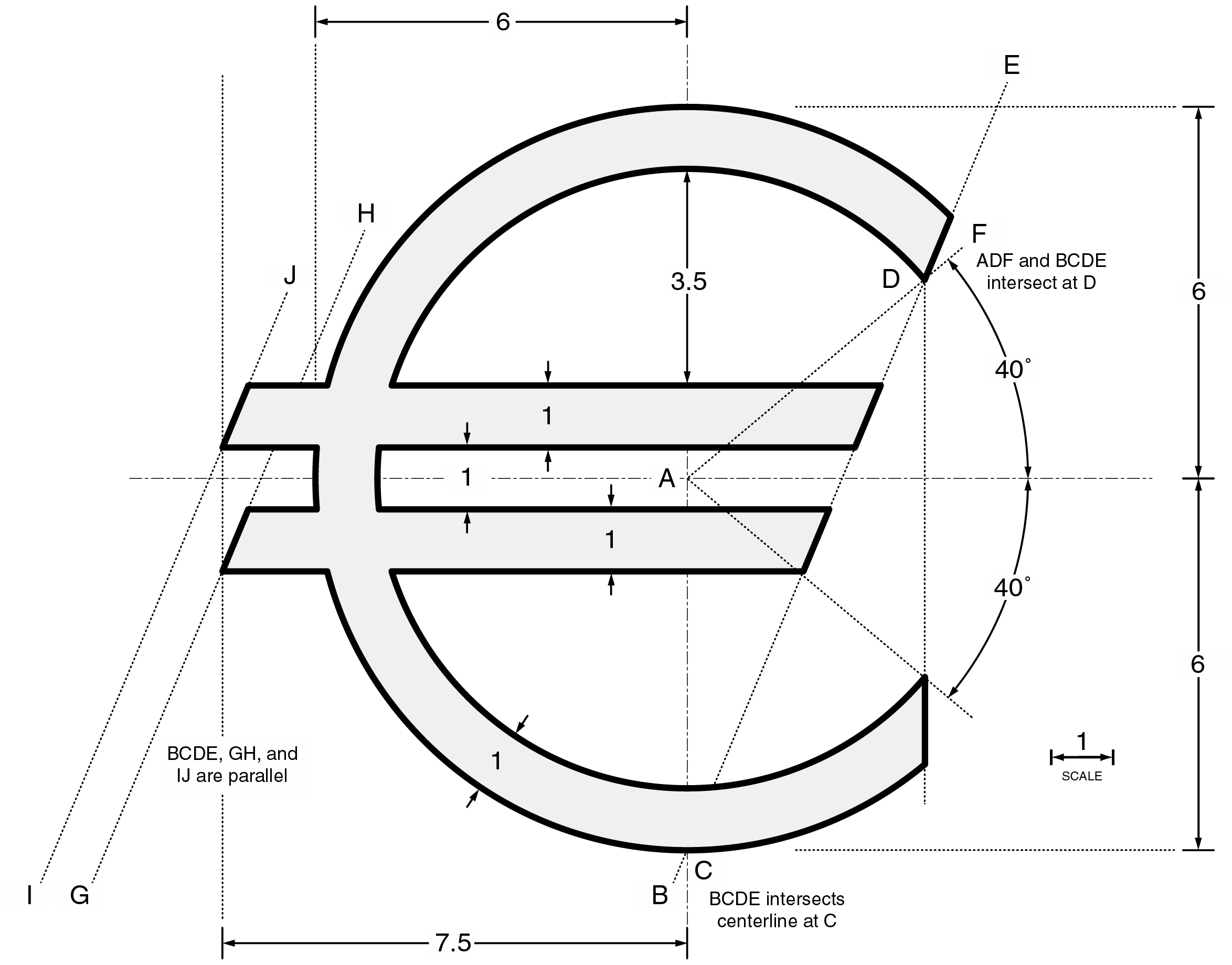 Diagram showing how to draw a euro symbol. This diagram illustrates how to draw a euro symbol, based on official documentation, and has been prepared specifically for Wikipedia and released to the public domain. The official diagrams of the euro symbol are copyrighted and downloadable from the official European Commission site, and include: constr_en.wmf Windows Metafile (WMF) with constructions (archive) euro_en.wmf Windows Metafile (WMF) without constructions (archive) constr_en.tif TIFF with constructions (archive) euro_en.tif TIFF without constructions (archive) The official diagrams are provided in industry standard TIFF and WMF formats, and are meant to be imported into a graphics editing program, such as Adobe Illustrator or Photoshop. The Wikipedia version was created with Adobe Illustrator and rendered in Portable Network Graphics (PNG) format. It bases the guidelines for construction of the symbol on the key data provided for the official symbol, but it was prepared from scratch and does not duplicate the official diagram, and it is released to the public domain. A very similar color version of this diagram is available at File:EuroConstLargeColor.png, showing the official euro symbol colors. It's prettier to look at but correspondingly more difficult to read. A vector graphic version was built according to this diagram at File:Euro-Construction.svg.